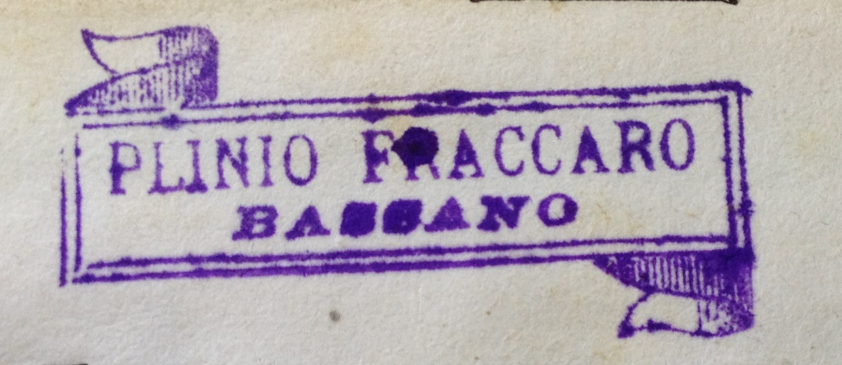 Library Plinio Fraccaro bookplate